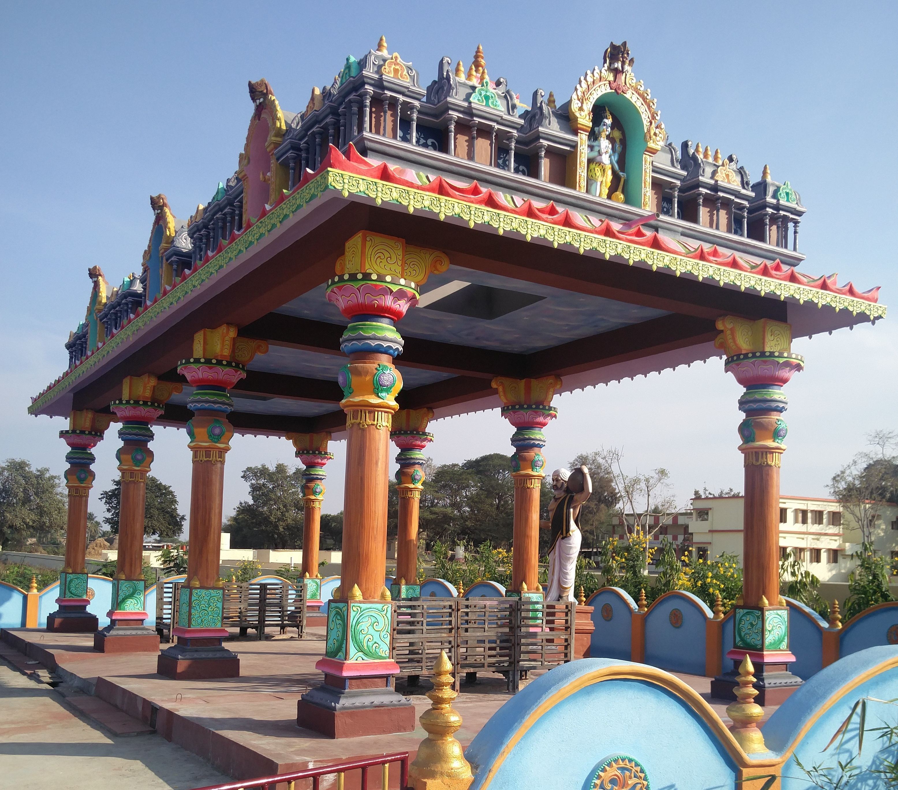 Graveyard main